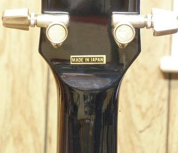 Ibanez Studio electric guitar - Made in Japan inscription on headstock